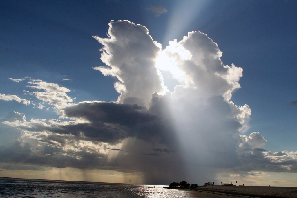 Cumulonimbus cloud over the Gulf of Mexico. Taken in Florida.